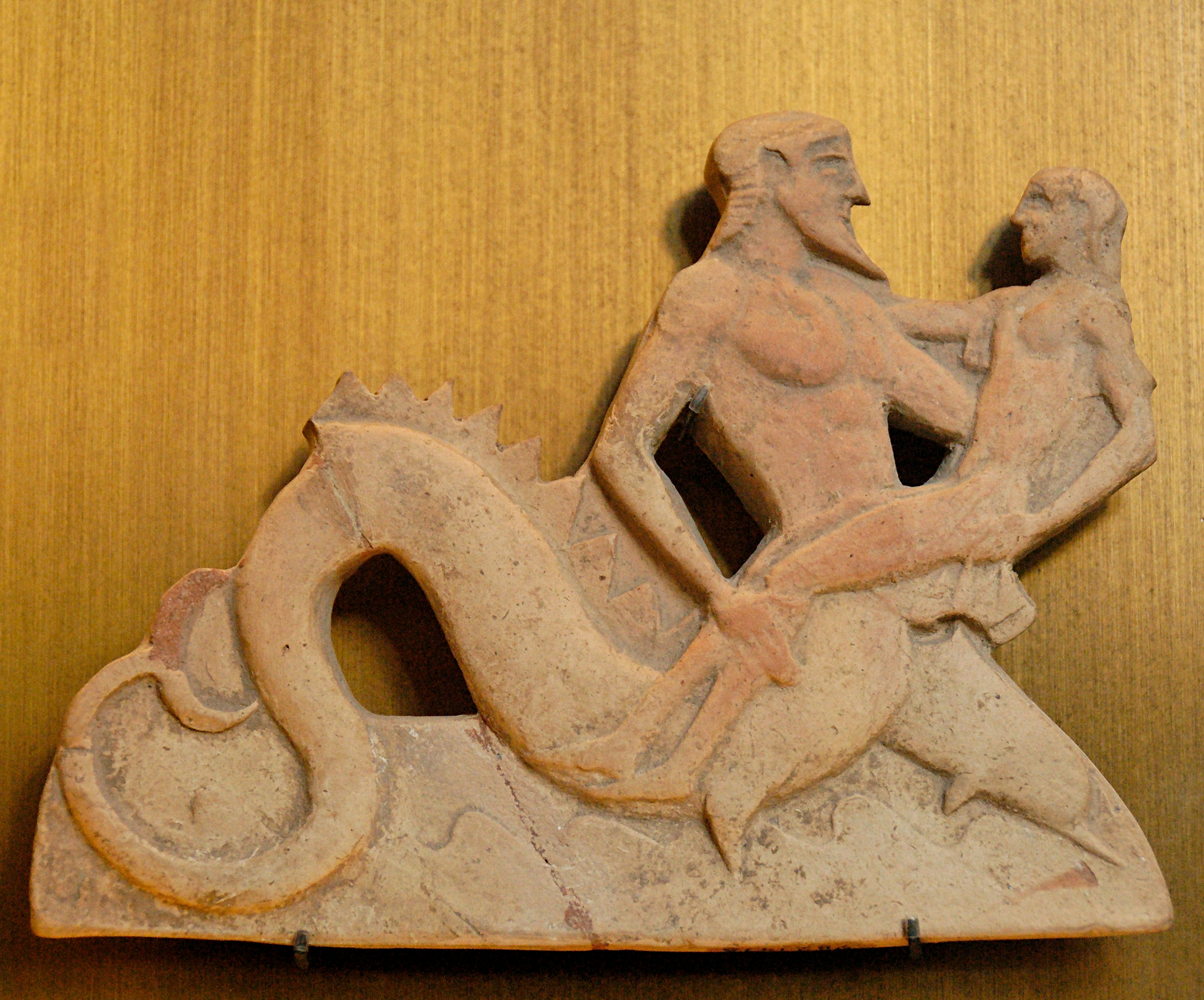 Triton carrying Theseus, who, according to some versions of the myth, is his half-brother. Terracotta relief, ca. 470–460 BC. From Milo.